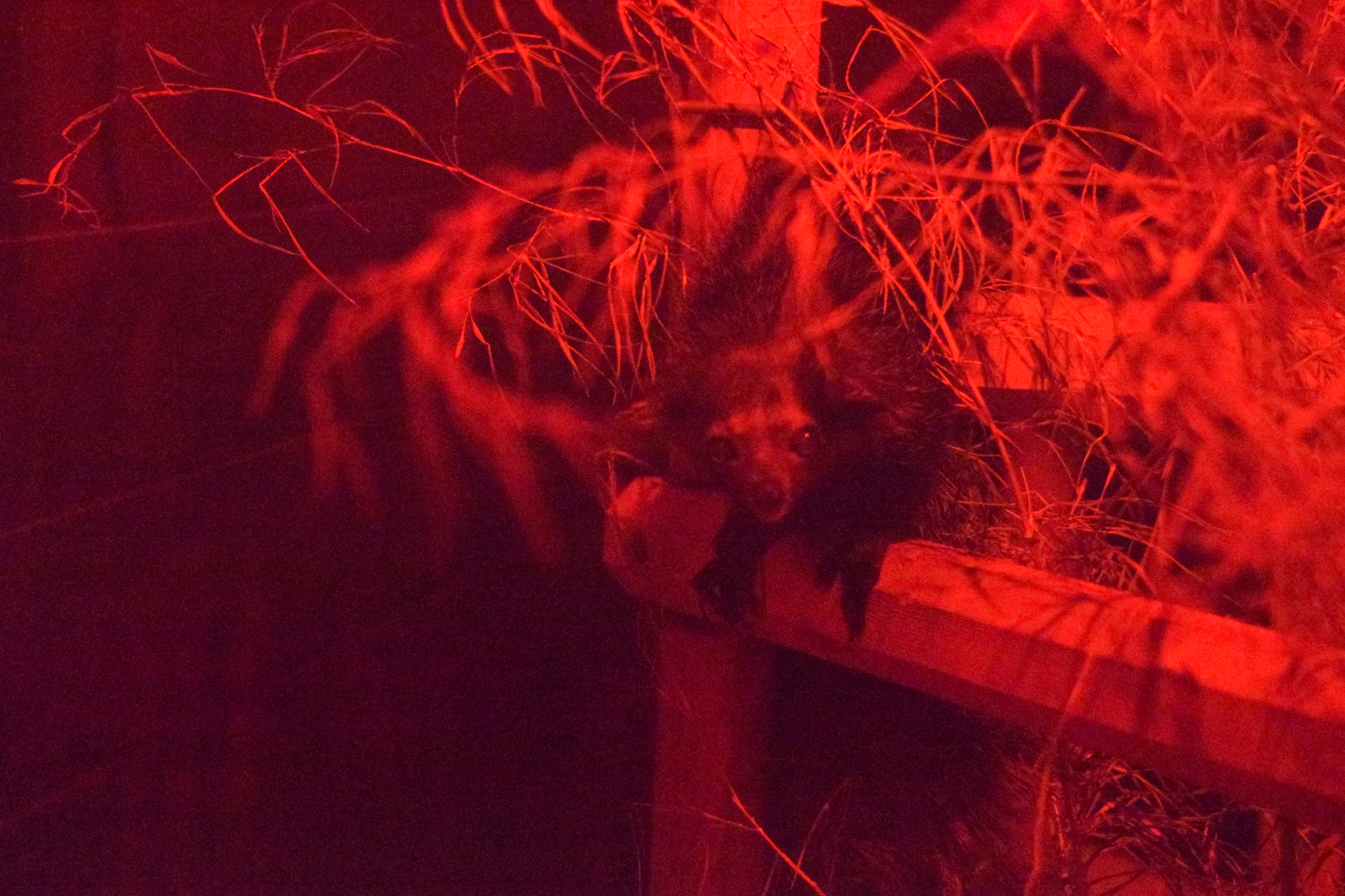 Aye Aye at the Duke Lemur Center